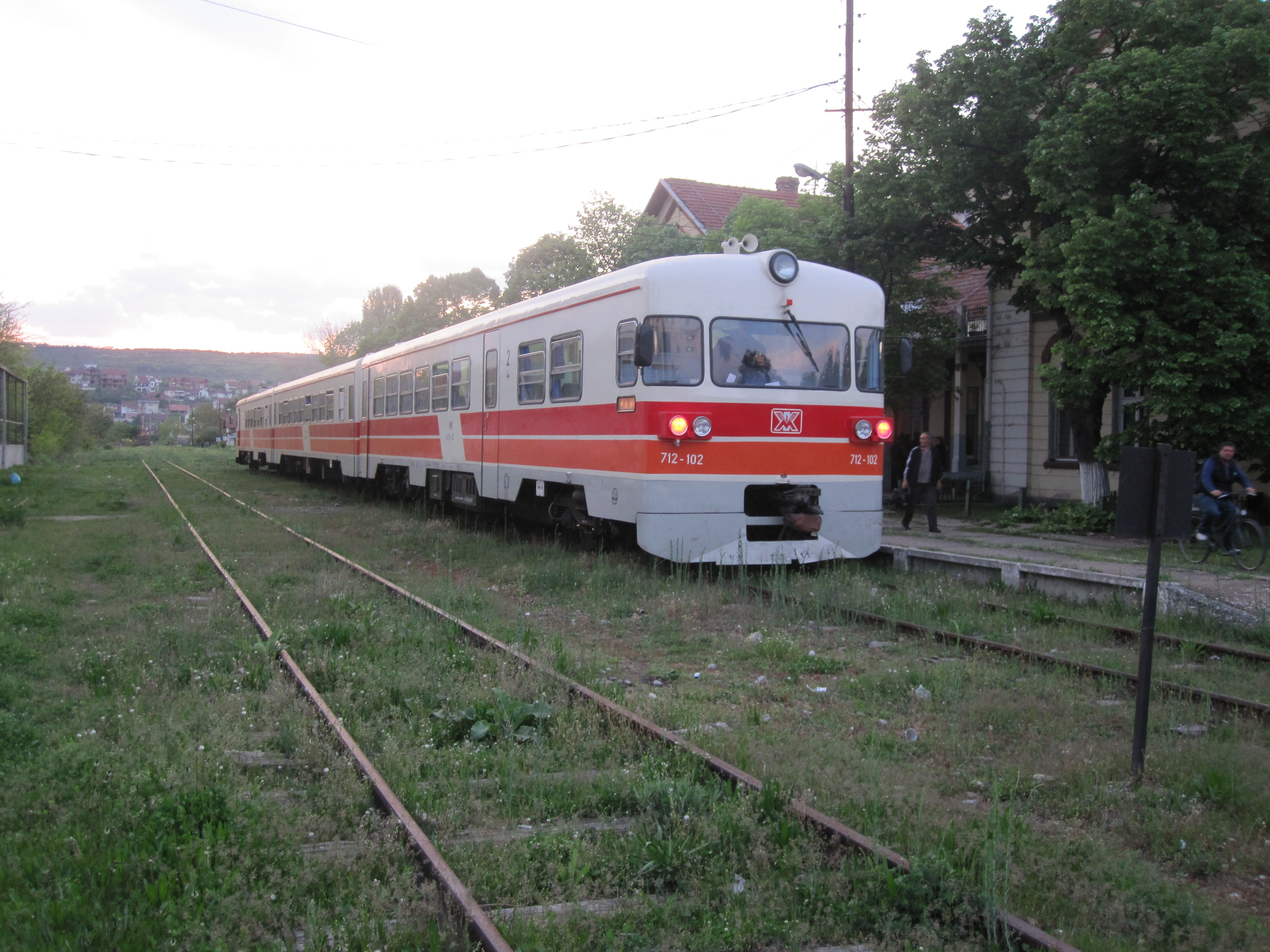 Of the three dead end branches in Macedonia, this is the only one that was not loco hauled during my visit. By all accounts it has seen 661 worked trains in the past. The train from Skopje has just arrived over 30 minutes late, so with a 10 minute turn around in falling light conditions I had a fairly rushed photo session.